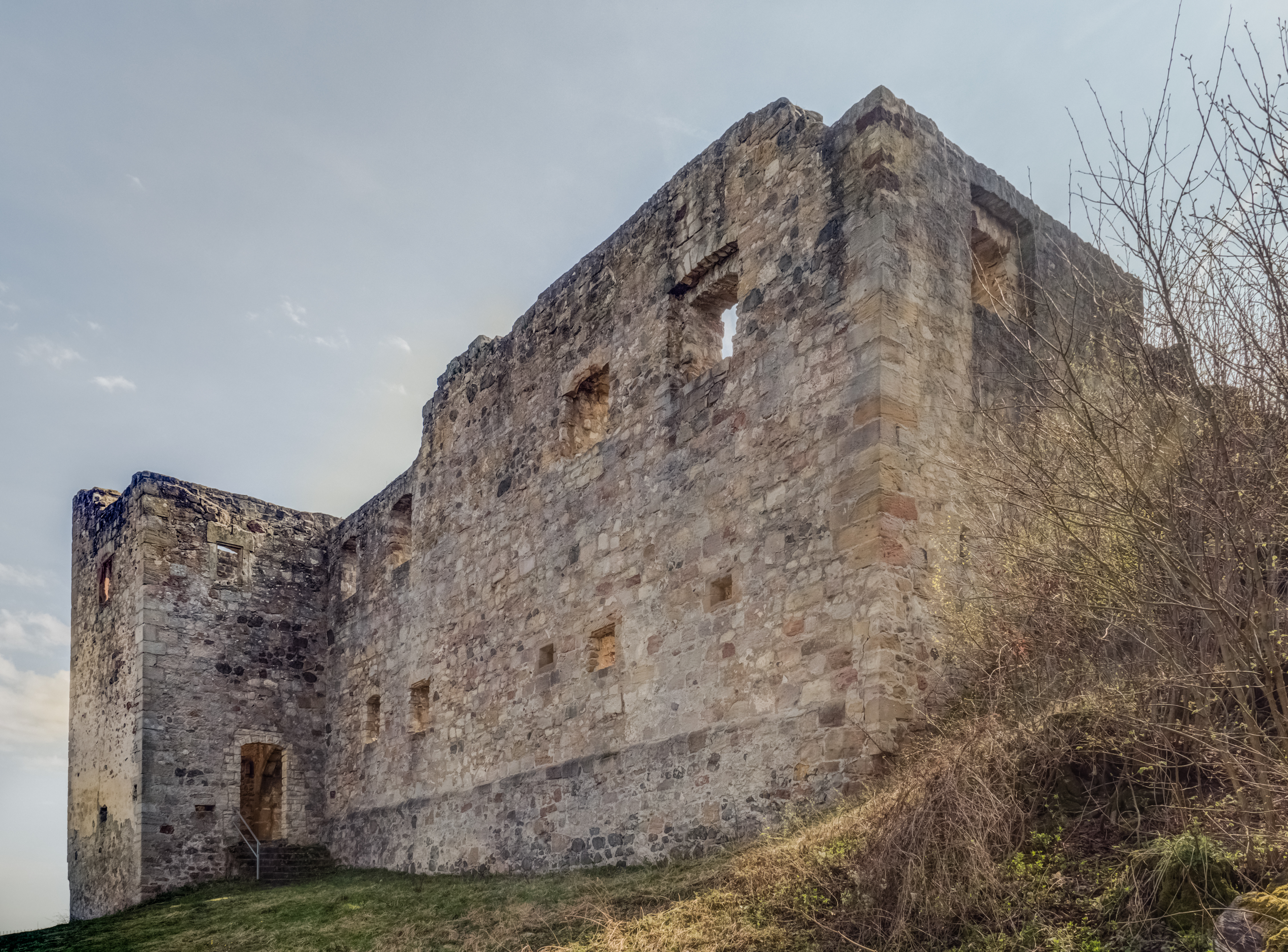 Main building of the Bramberg ruin